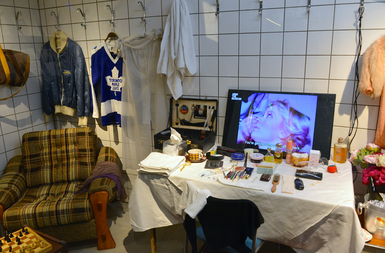 ABBA: The Museum May 6, 2013.